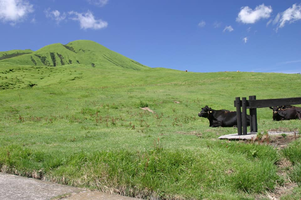 Ojoake is a formation on Mt. Aso.